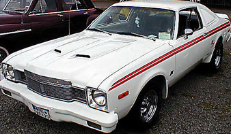 Dodge Aspen